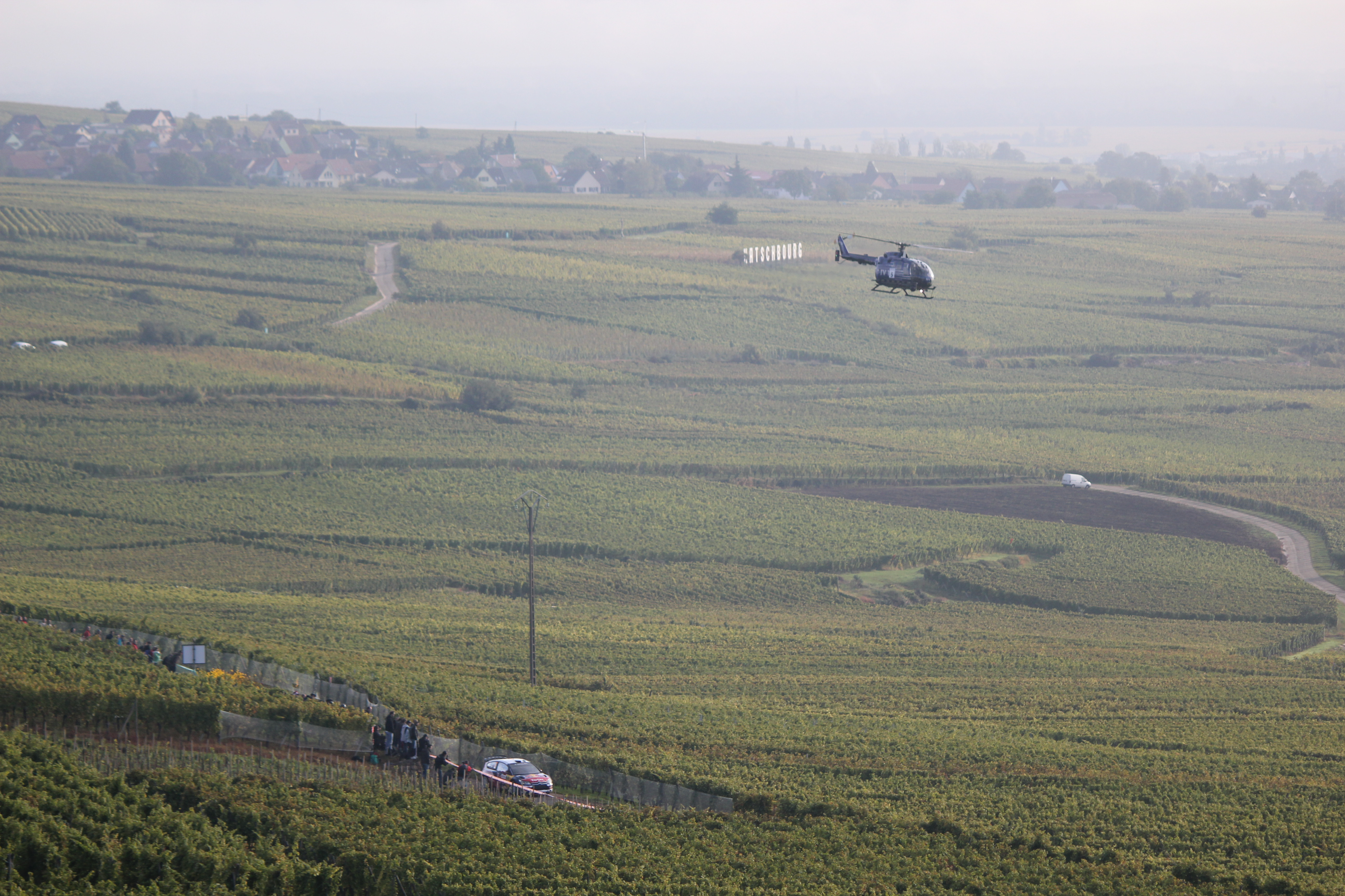 Hélicoptère de la télévision poursuivant un participant du Championnat du monde des rallyes, dans les vignobles de Gueberschwihr et Hattstatt. Au loin le village d'Obermorschwihr.